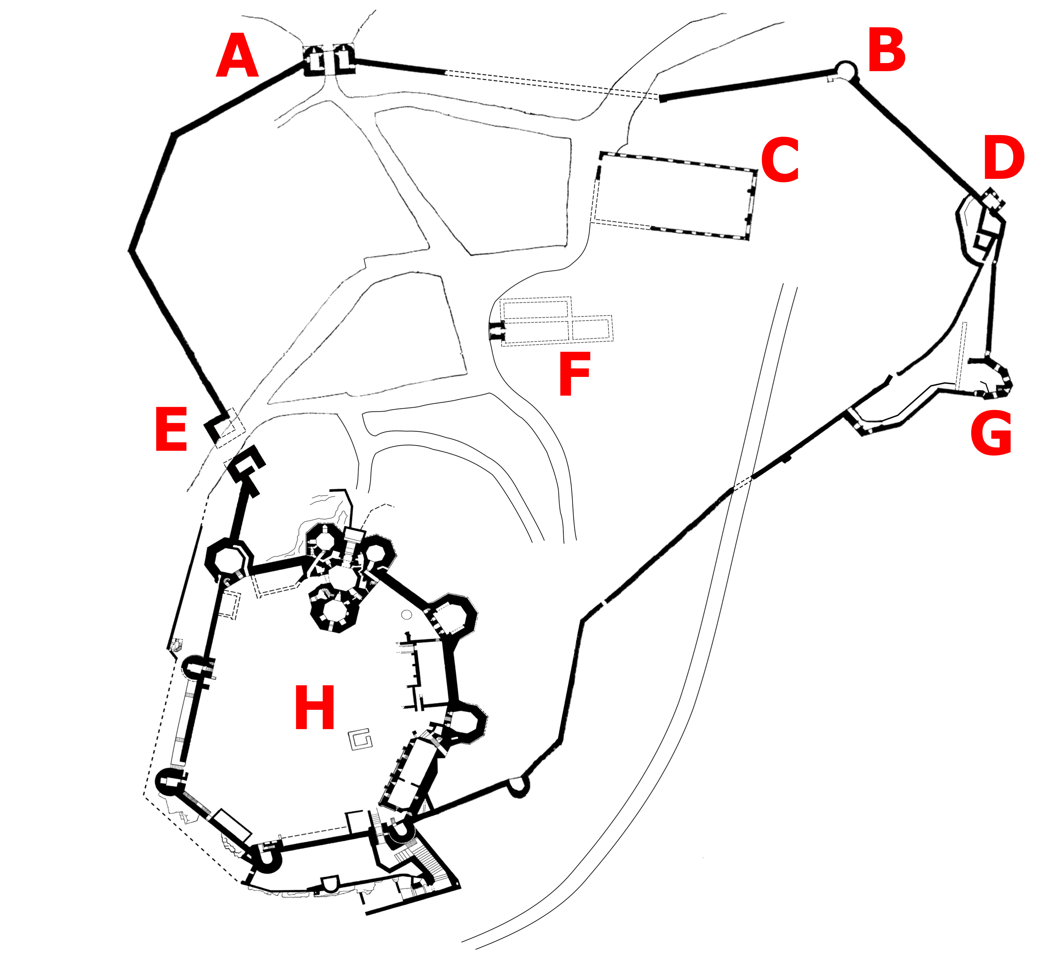 Denbigh Castle and town walls plan, labelled